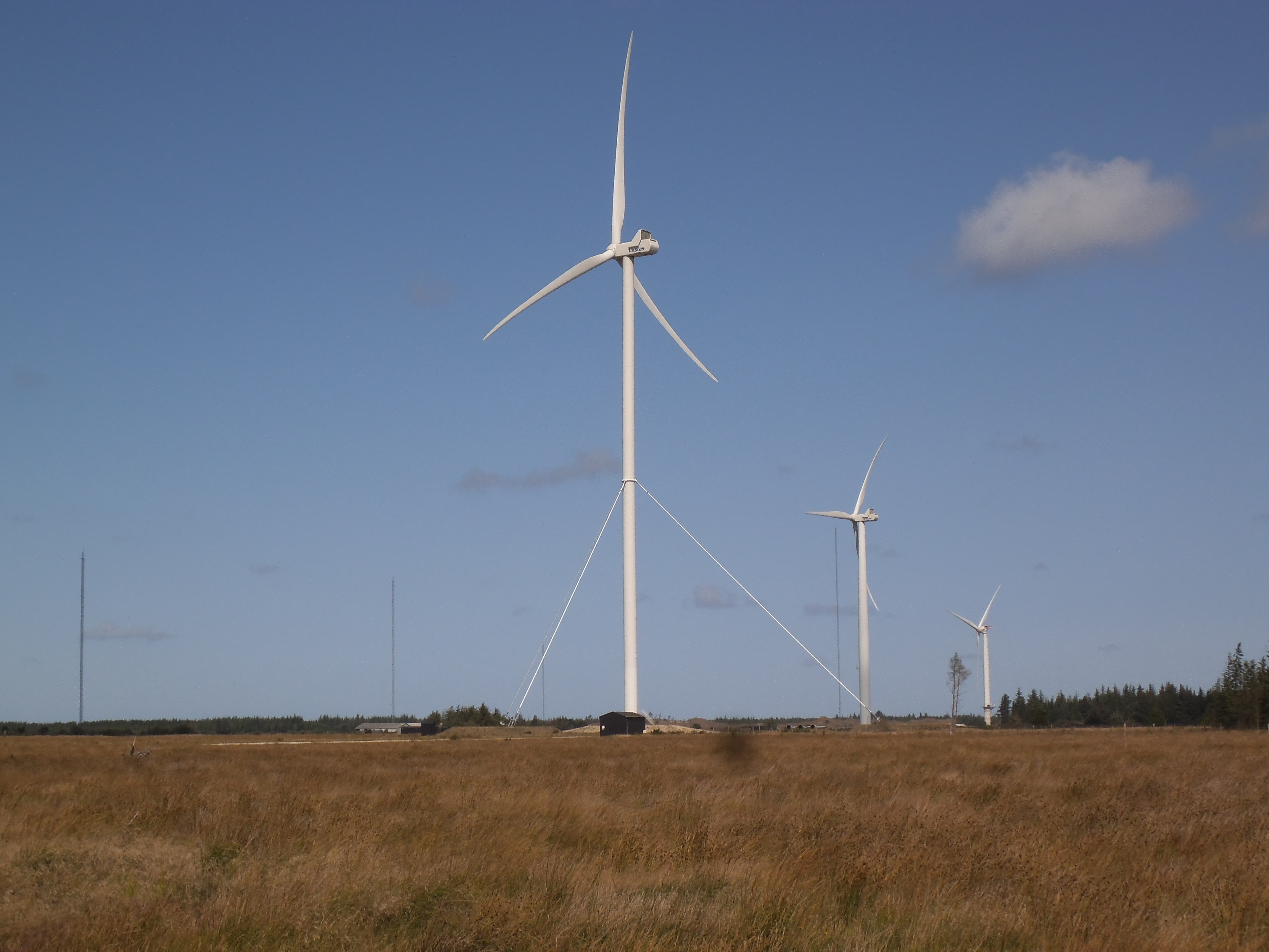 Nationalt testcenter for store vindmøller (Østerild Wind Turbine Test Field)